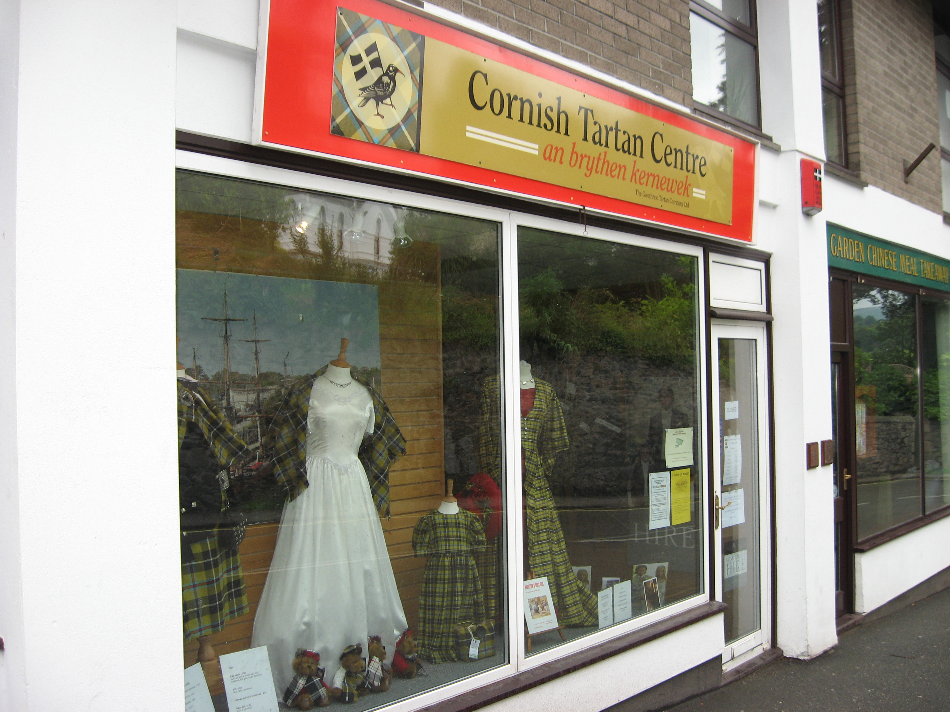 Cornish tartans, seen in St Austell